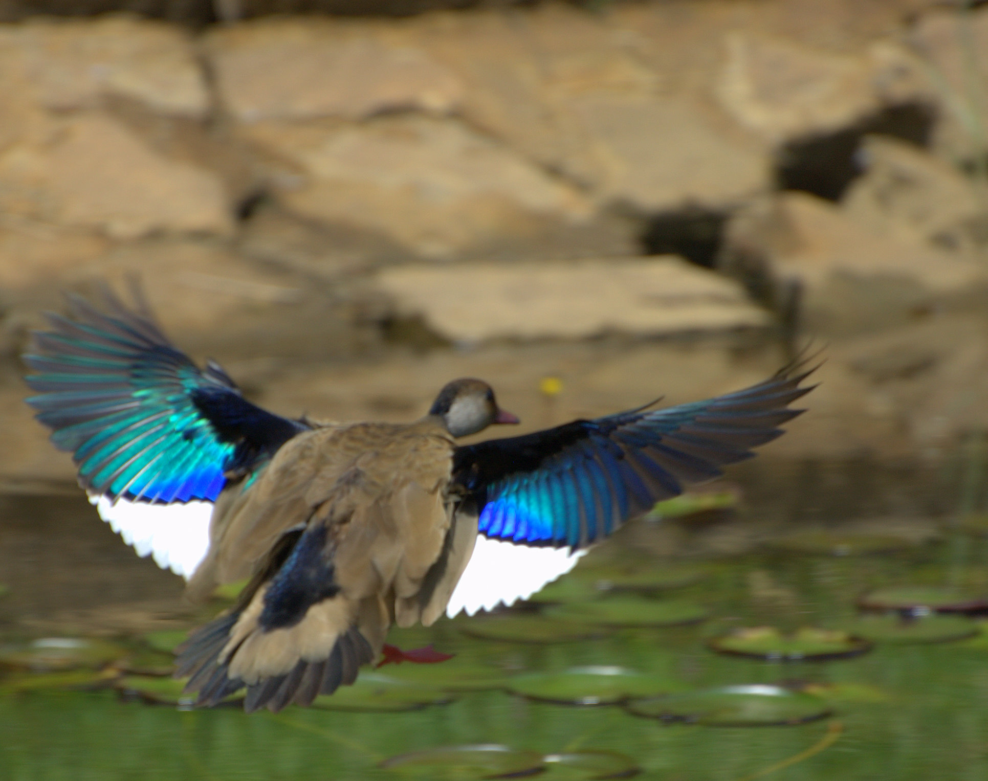 A Brazilian Duck (Amazonetta brasiliensis)